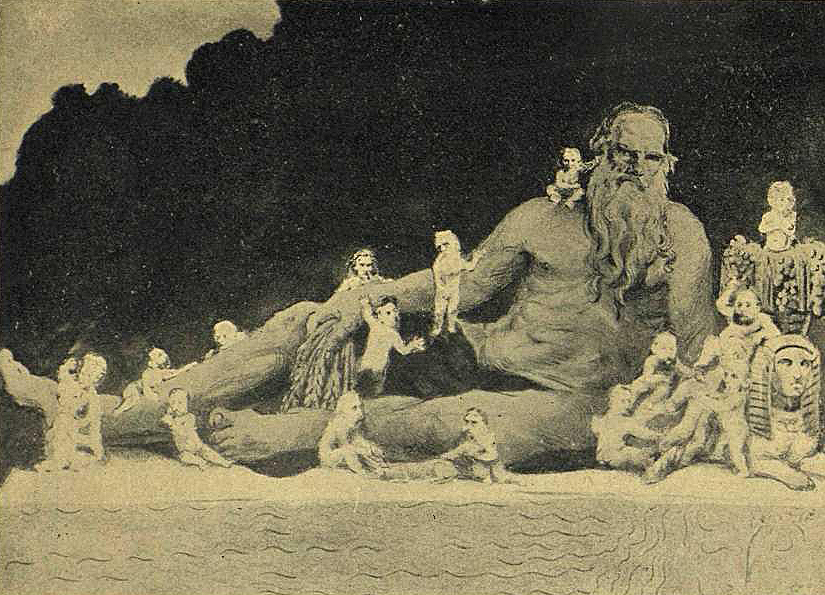 «A Giant and a Pygmies». A caricature of Leo Tolstoy